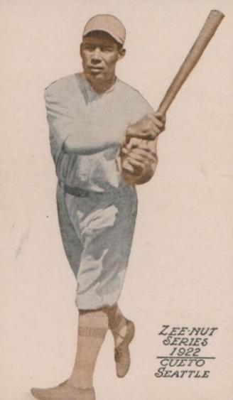 A baseball card of Manuel Cueto from the 1922 Zeenut set.